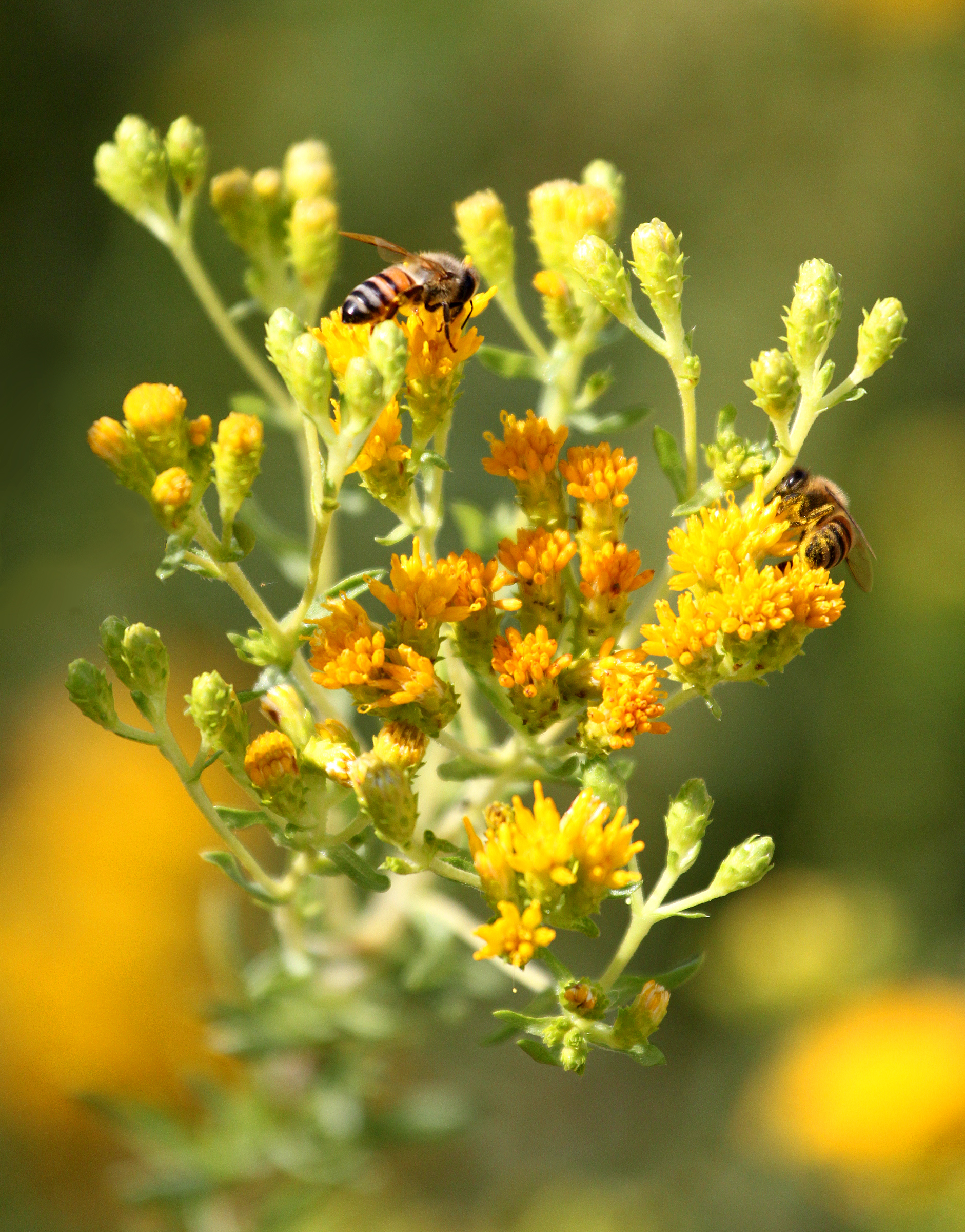 Isocoma menziesii (Coast Goldenbush or Menzies' goldenbush), Mason Regional Park, Irvine, CA